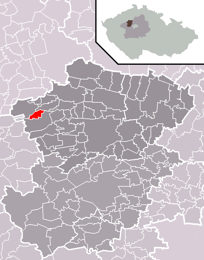 Location of Líský municipality within Kladno District and administrative area of Slaný as a Municipality with Extended Competence.